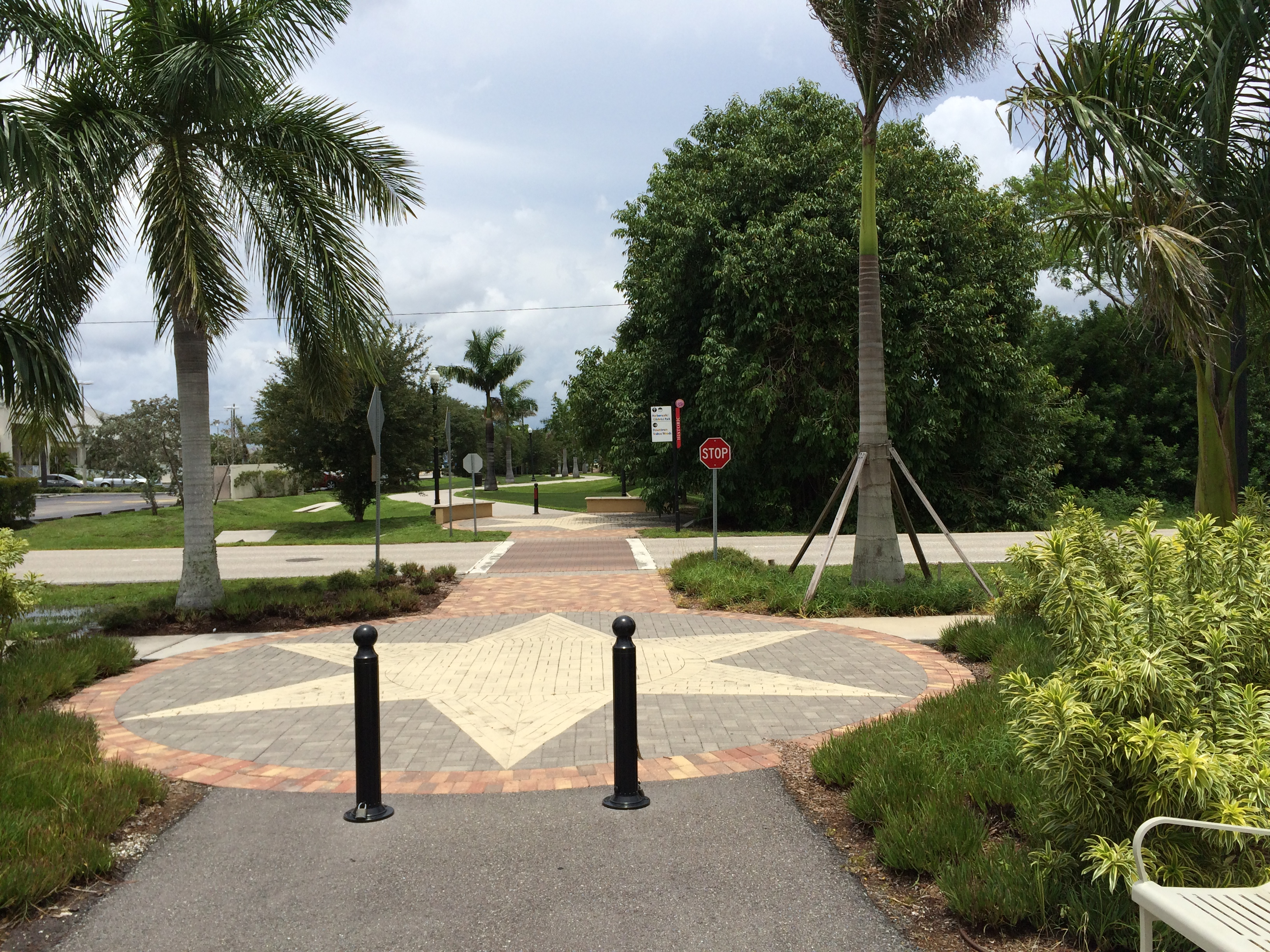 Punta Gorda Linear Park near Fisherman's Village